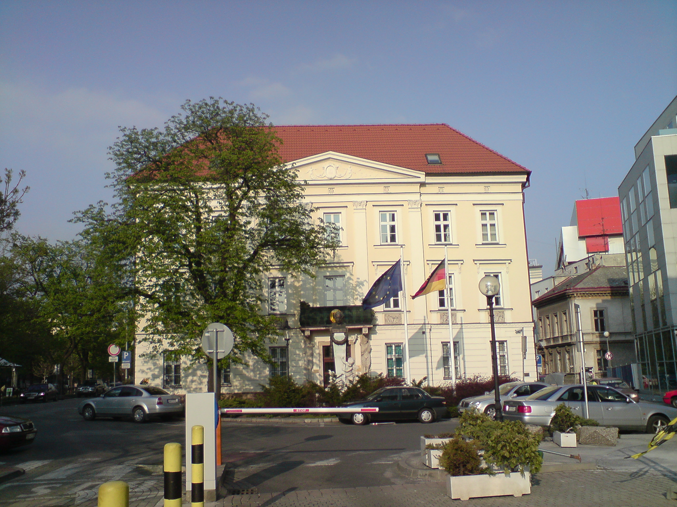 Nester palace in Bratislava, Embassy of Germany.